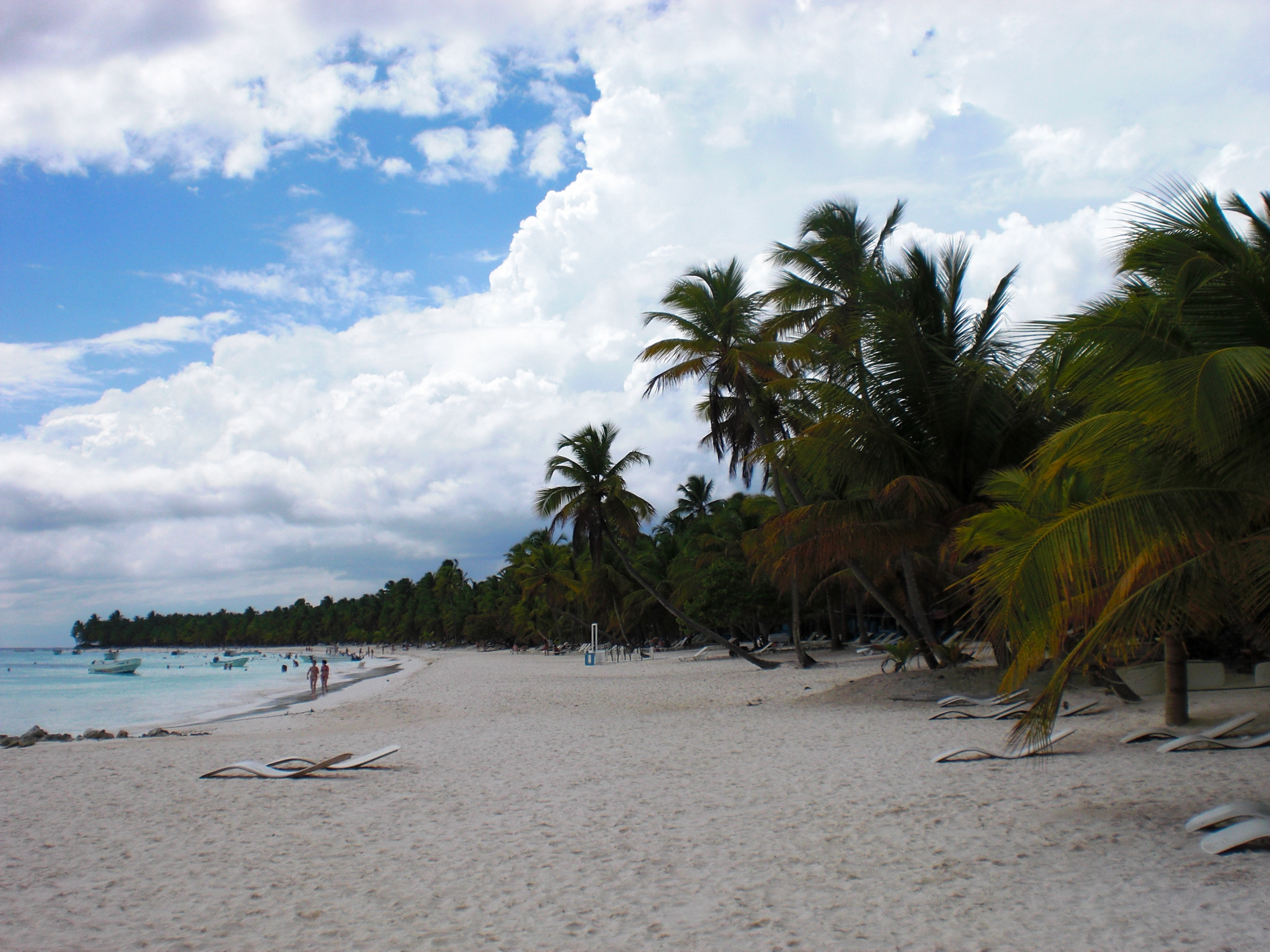 The most popular beach in Saona Island